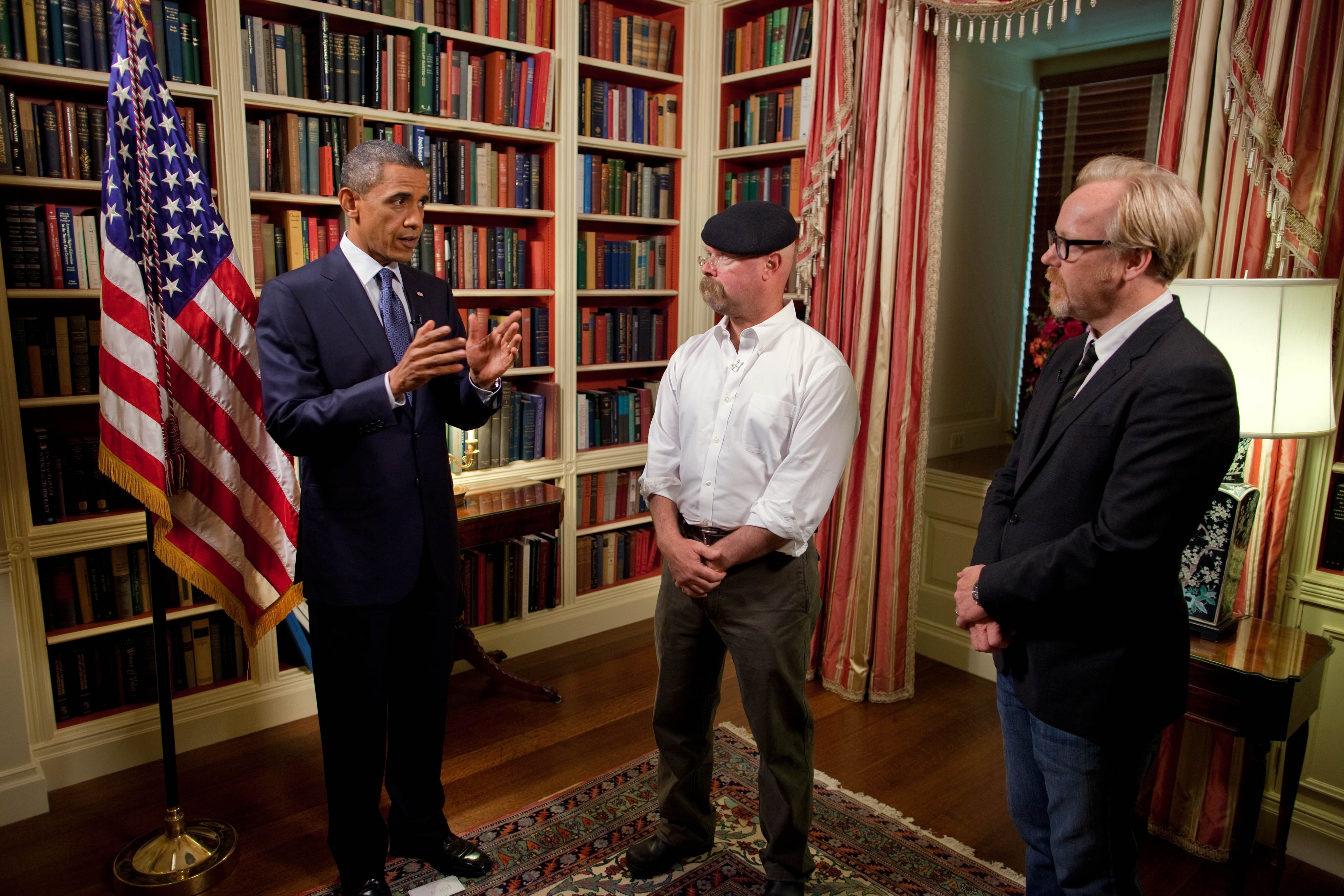 United States President Barack Obama meets with Jamie Hyneman (center) and Adam Savage (right) in the White House library on July 27, 2010, to tape an episode of Mythbusters. The episode is scheduled to air on December 8, and it will show the Mythbusters re-testing the Archimedes Death Ray.